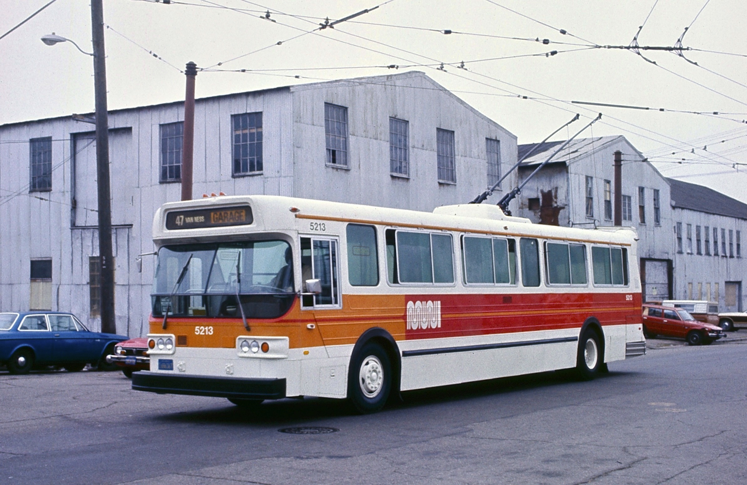 San Francisco Muni trolley bus 5213, a 1976 Flyer E800 trolley bus (or "trolley coach", as such vehicles are often called by the city's residents), in 1983, wearing its original, as-delivered paint scheme – known as the "Landor" paint scheme – and free of any advertisements on its front or side. It is pictured moving east on Mariposa Street between Bryant and Hampshire streets, in front of Muni's Potrero Garage (behind the photographer, not in view), one of two operations and maintenance bases used by the San Francisco trolley bus system. The buildings in the background have all since been demolished and replaced by new buildings.